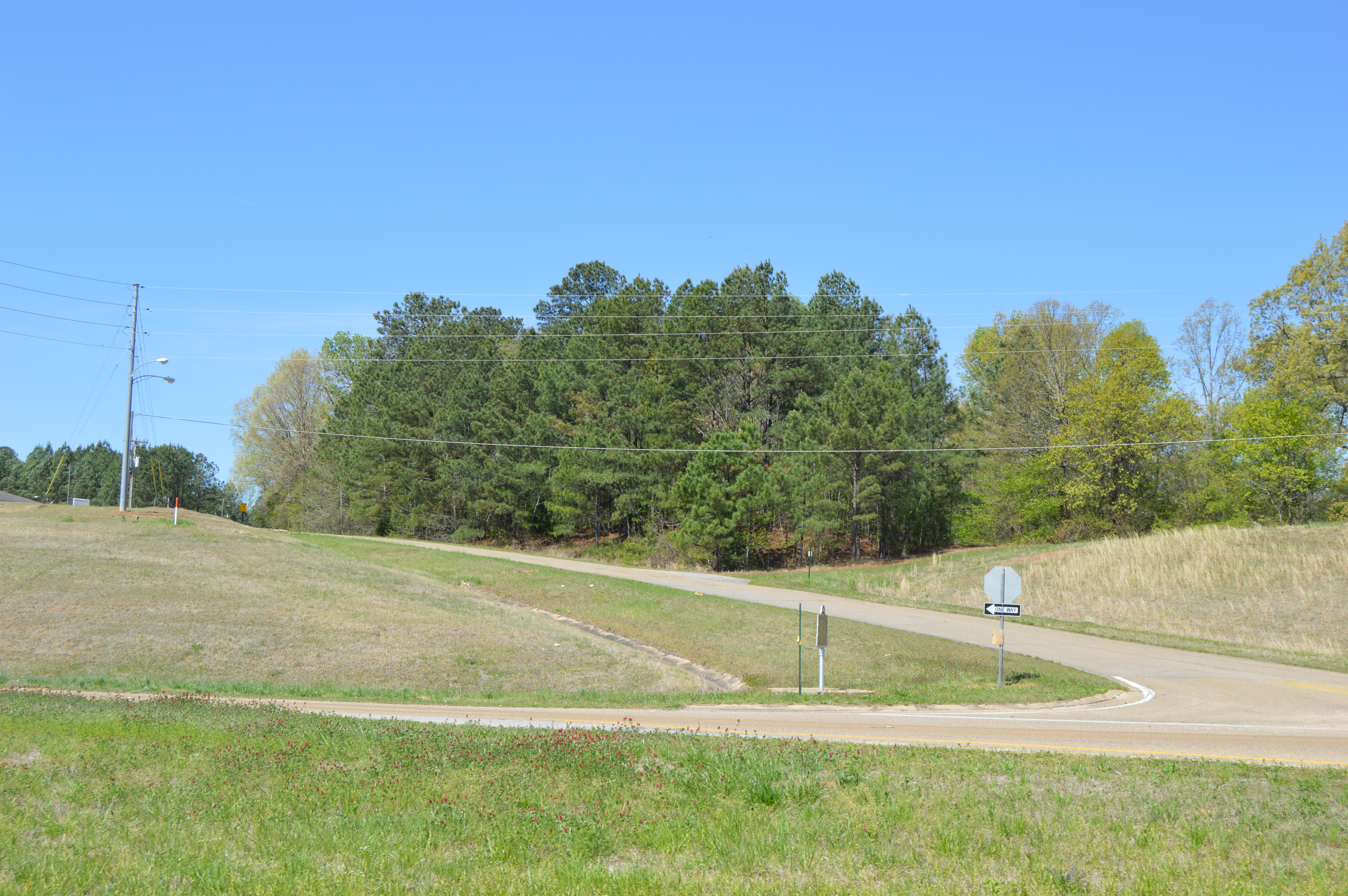 Land on the western side of Mississippi Highway 25 north of the U.S. Route 72 interchange in Iuka, Mississippi, United States. Here the Battle of Iuka was fought in 1862, during the American Civil War. The battlefield is listed on the National Register of Historic Places.